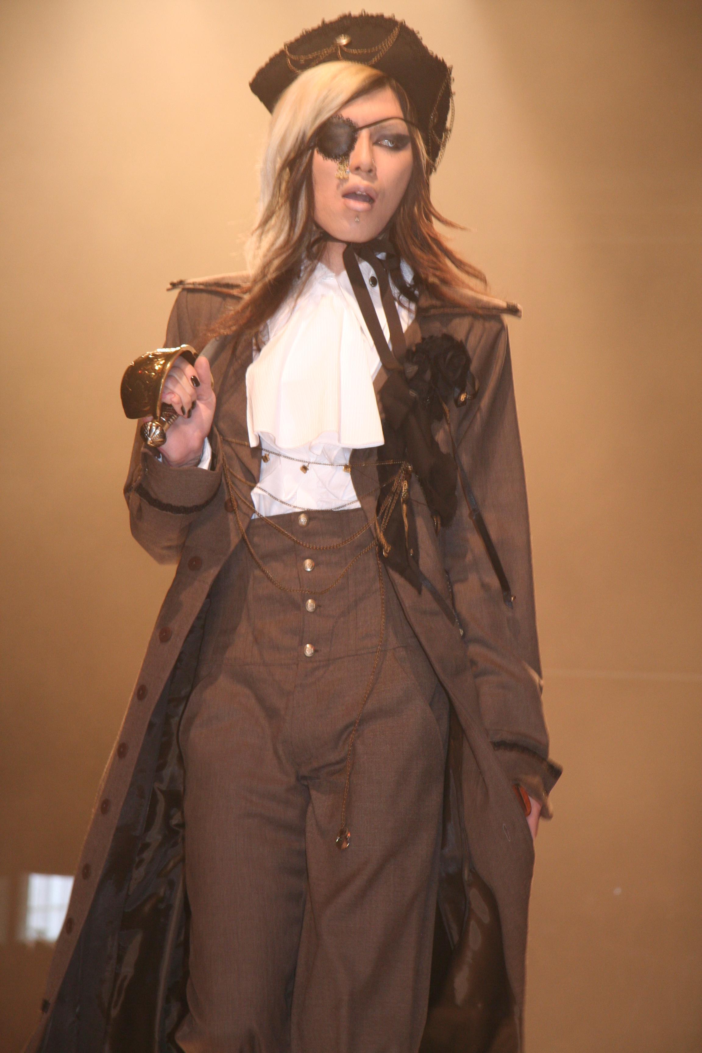 Hakuei (Penicillin vocalist) during the Laforet Harajuku Collection fashion show at Japan Expo 2007 (Paris, France).